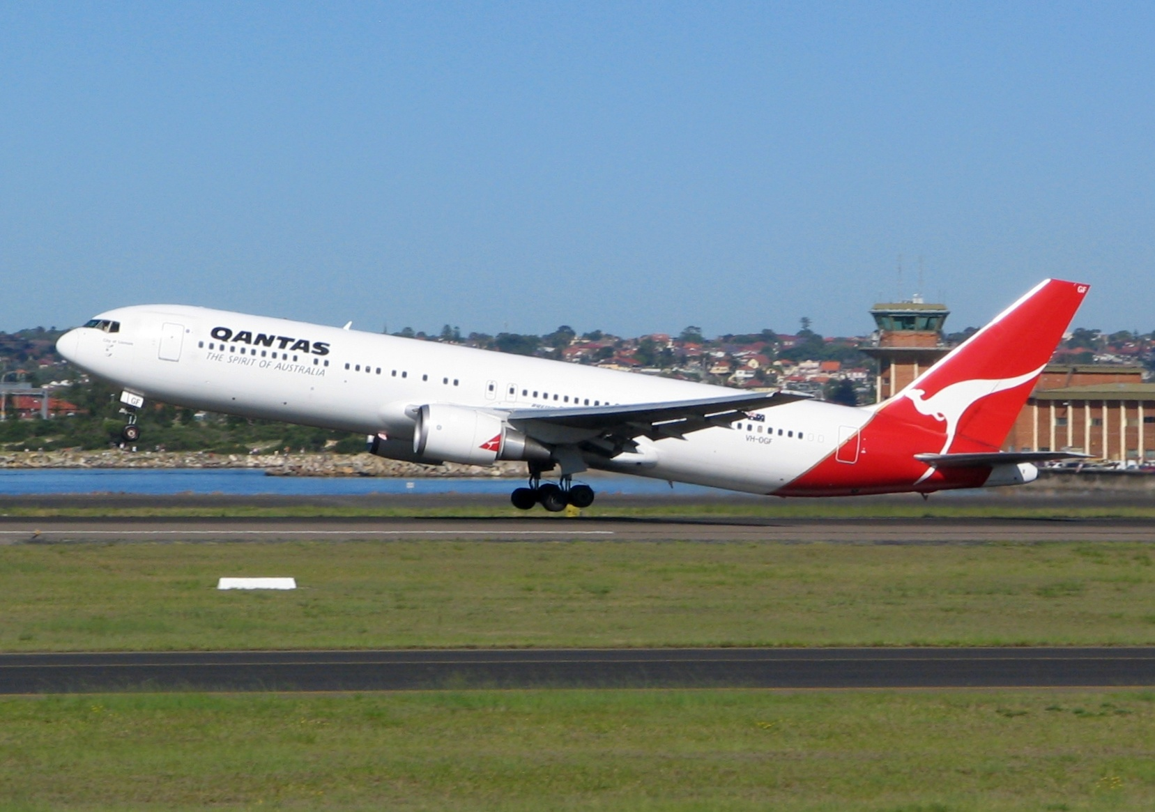 Qantas Boeing 767-300 VH-OGF departing Sydney Airport in 2005.